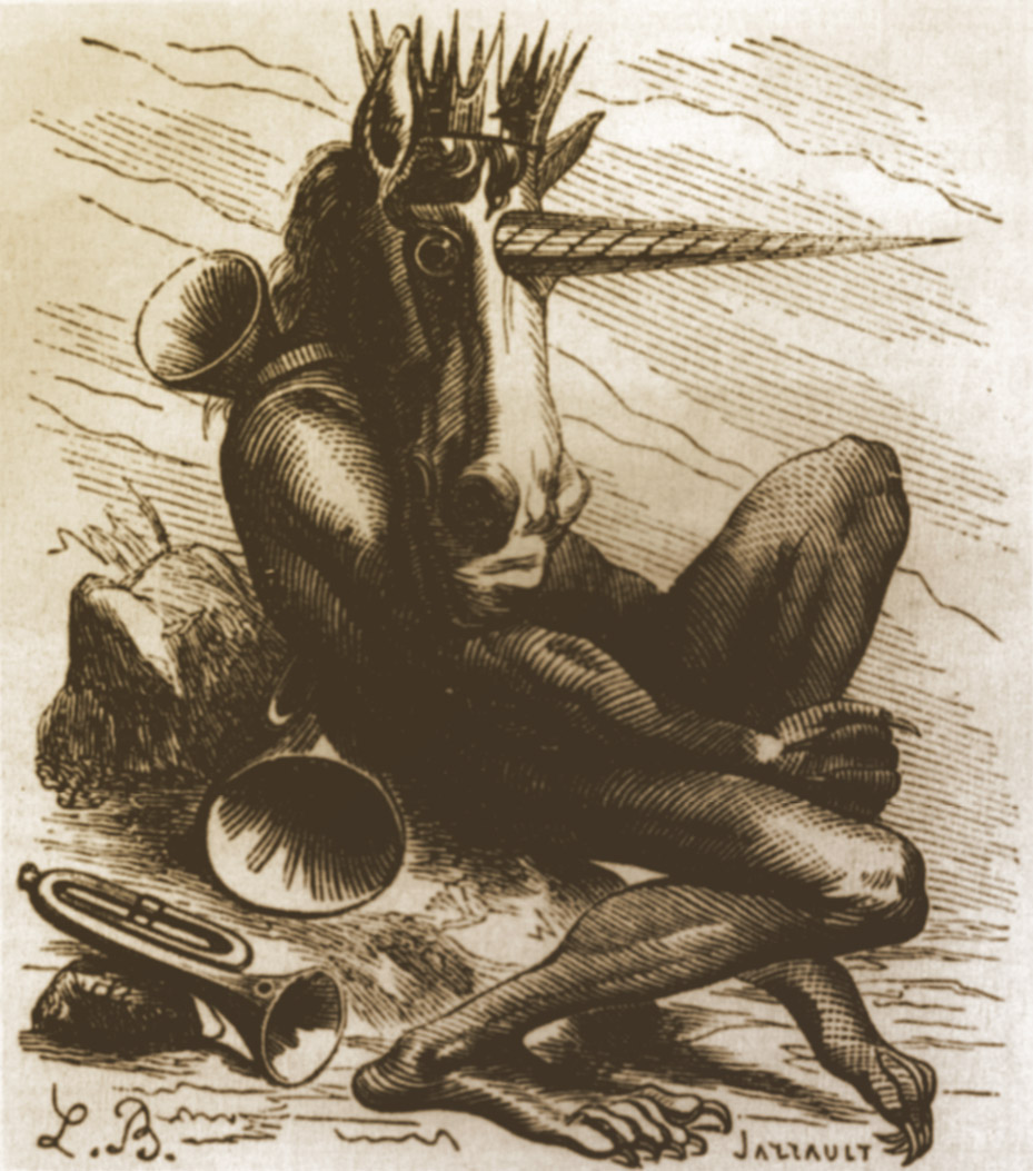 Demon Amduscias from Collin de Plancy's Dictionnaire Infernal, 1863